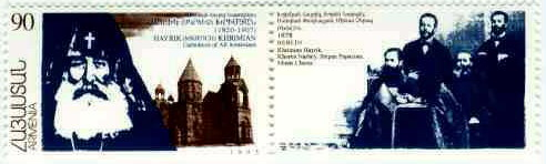 Stamp of Armenia (Catholicos Mkrtitch)